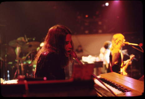 Chris North with Ambrosia